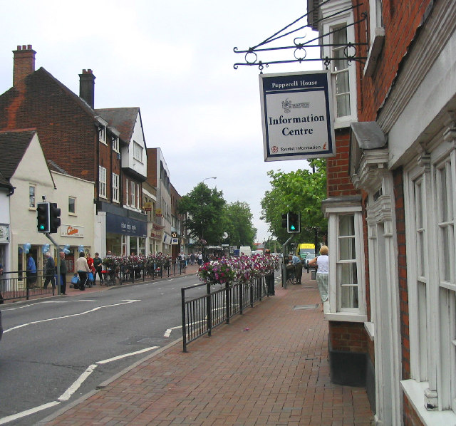 High Street Brentwood Essex. Looking east from the Information Centre